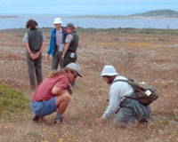 Chorizanthe valida: "Natural resource managers and California Native Plant Society volunteers census the main population of the Sonoma spineflower each year. In the past the main population has exceeded 20,000 individuals, making the task of counting these small annuals a challenge."